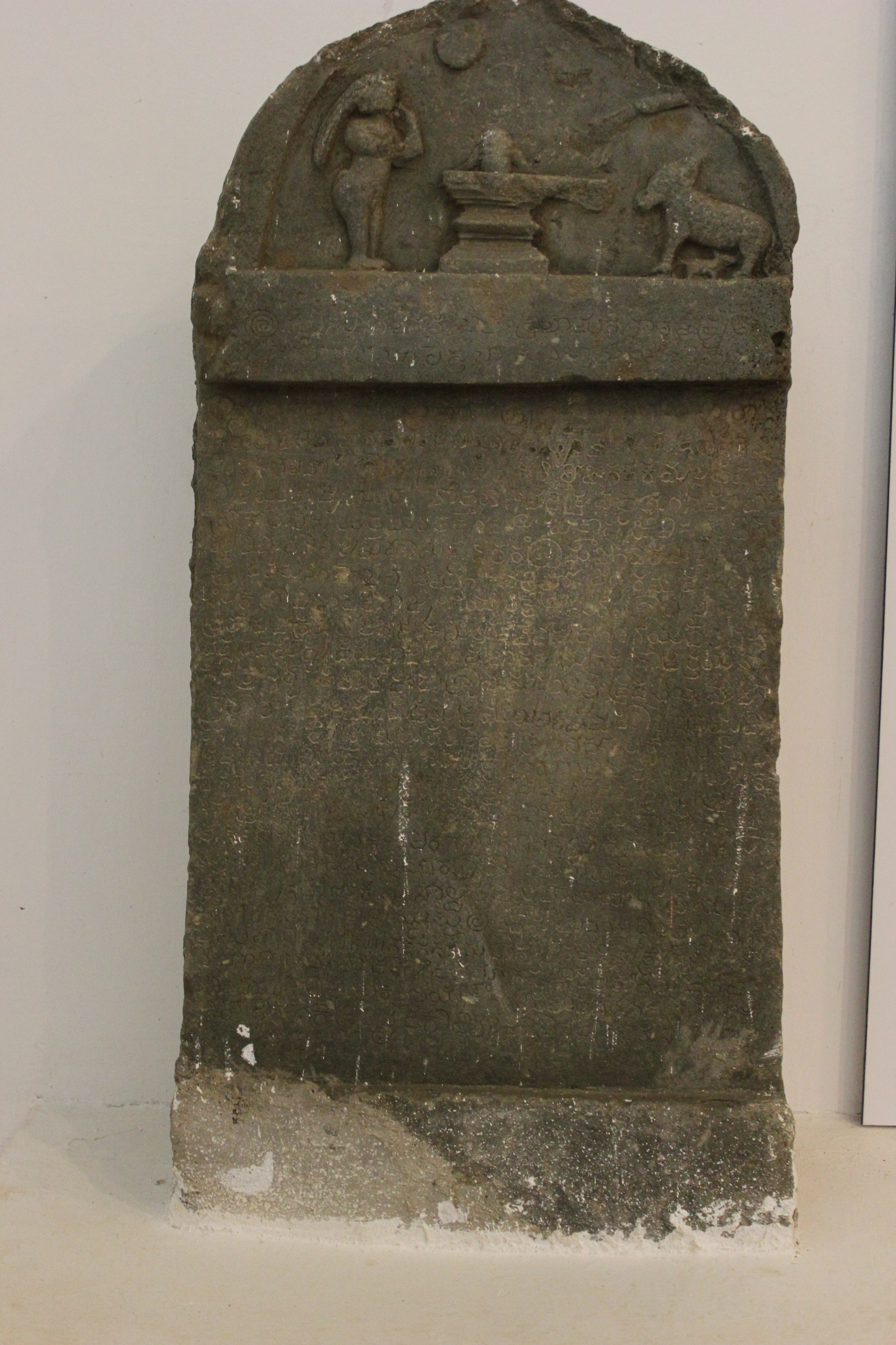 This photograph was taken by me at the ASI museum at Bagali (known as Balgali in ancient inscriptions), Davangere district, Karnataka state, India.